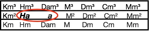 the metric system